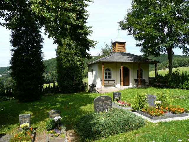 This image shows the chapel in Hirschberg near Olbernhau in the Ore Mountains.